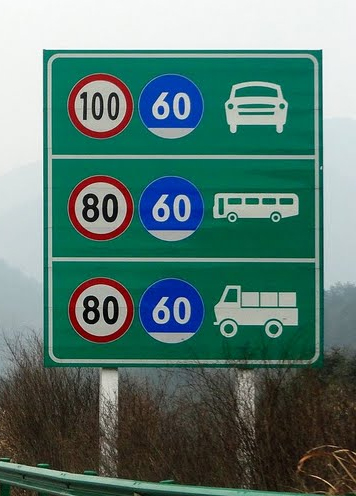 A speed limit signpost in China